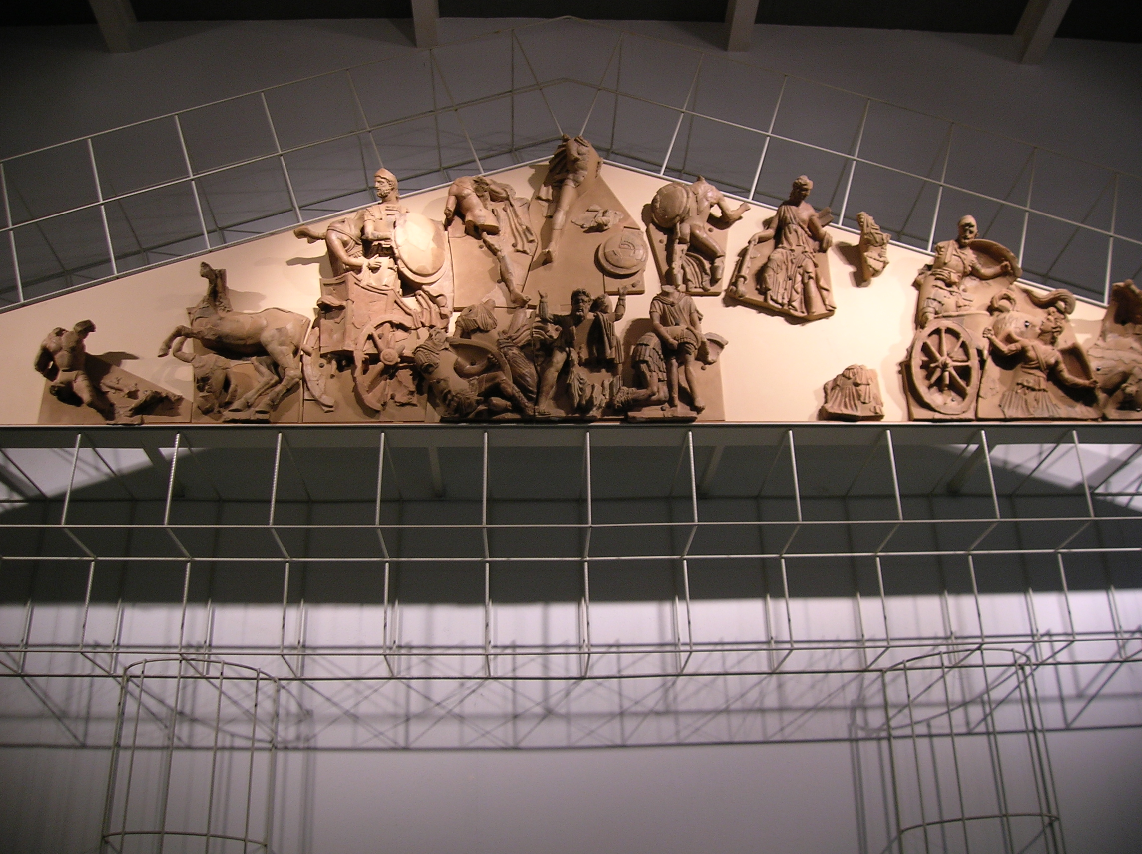 Terracotta pediment from the temple of Talamone (Grosseto), the first closed pediment in Etruria, showing the fate of the Seven against Thebes.